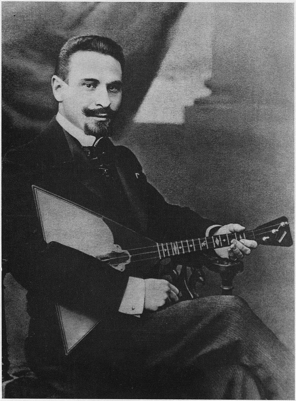 Vassily Vassilievich Andreyev